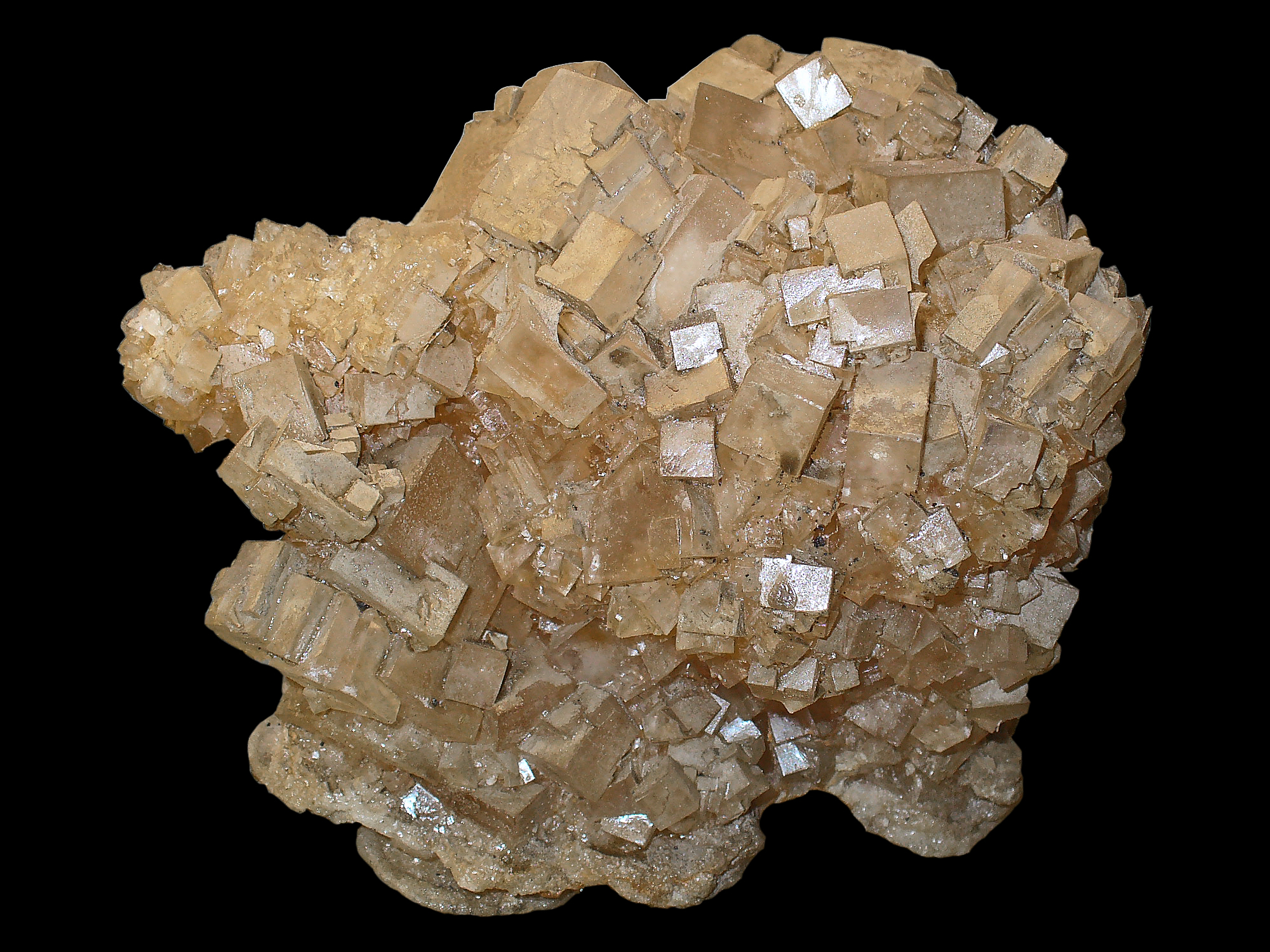 Halite, Rock salt, Sodium chloride, NaCl; Collection of the Institute of Mineralogy, University Tübingen. Used in homeopathy as remedy: Natrium chloratum / Natrium muriaticum (Nat-m.)